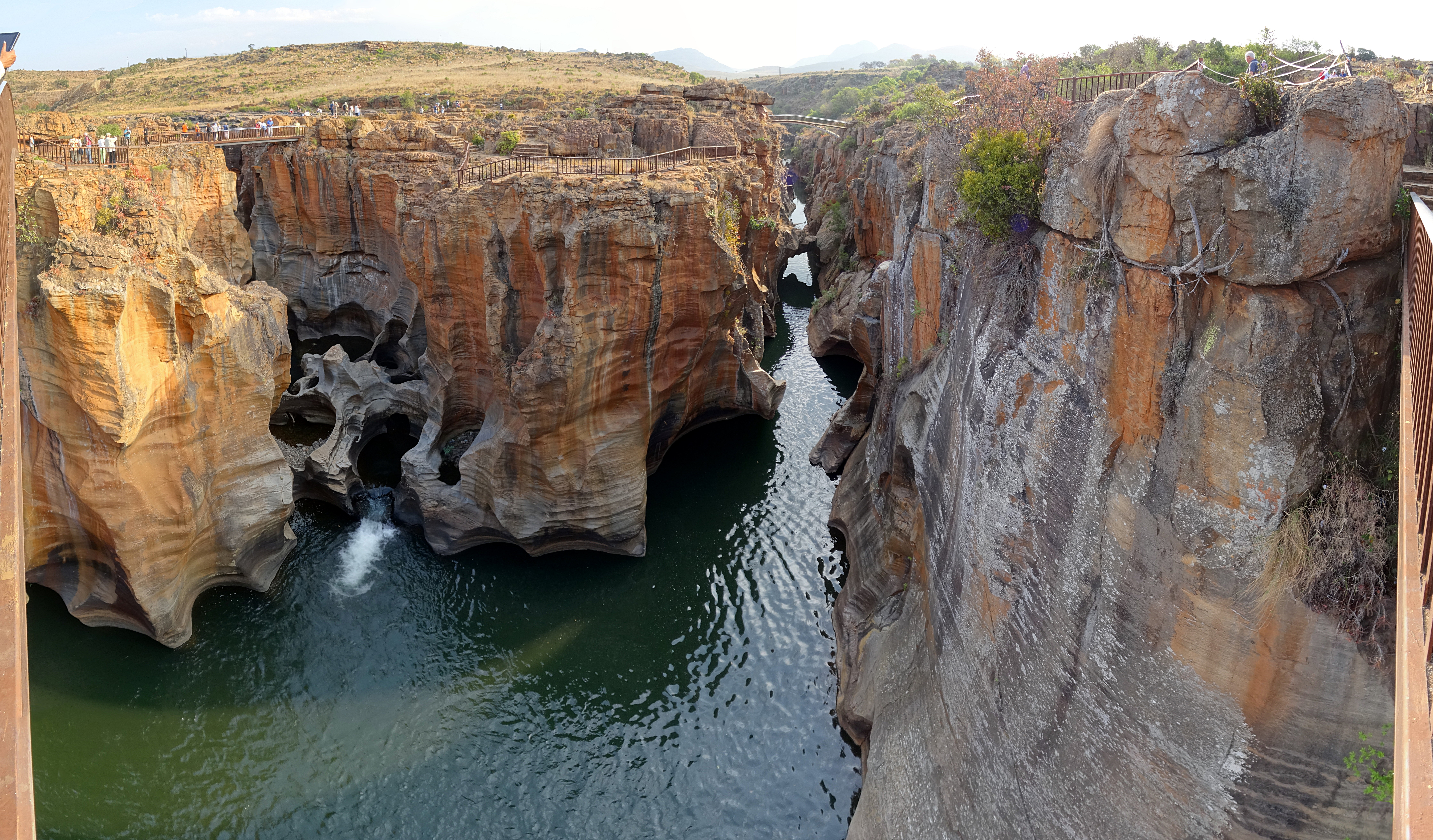 Potholes at Bourke's Luck, near Graskop, Mpumalanga, South Africa